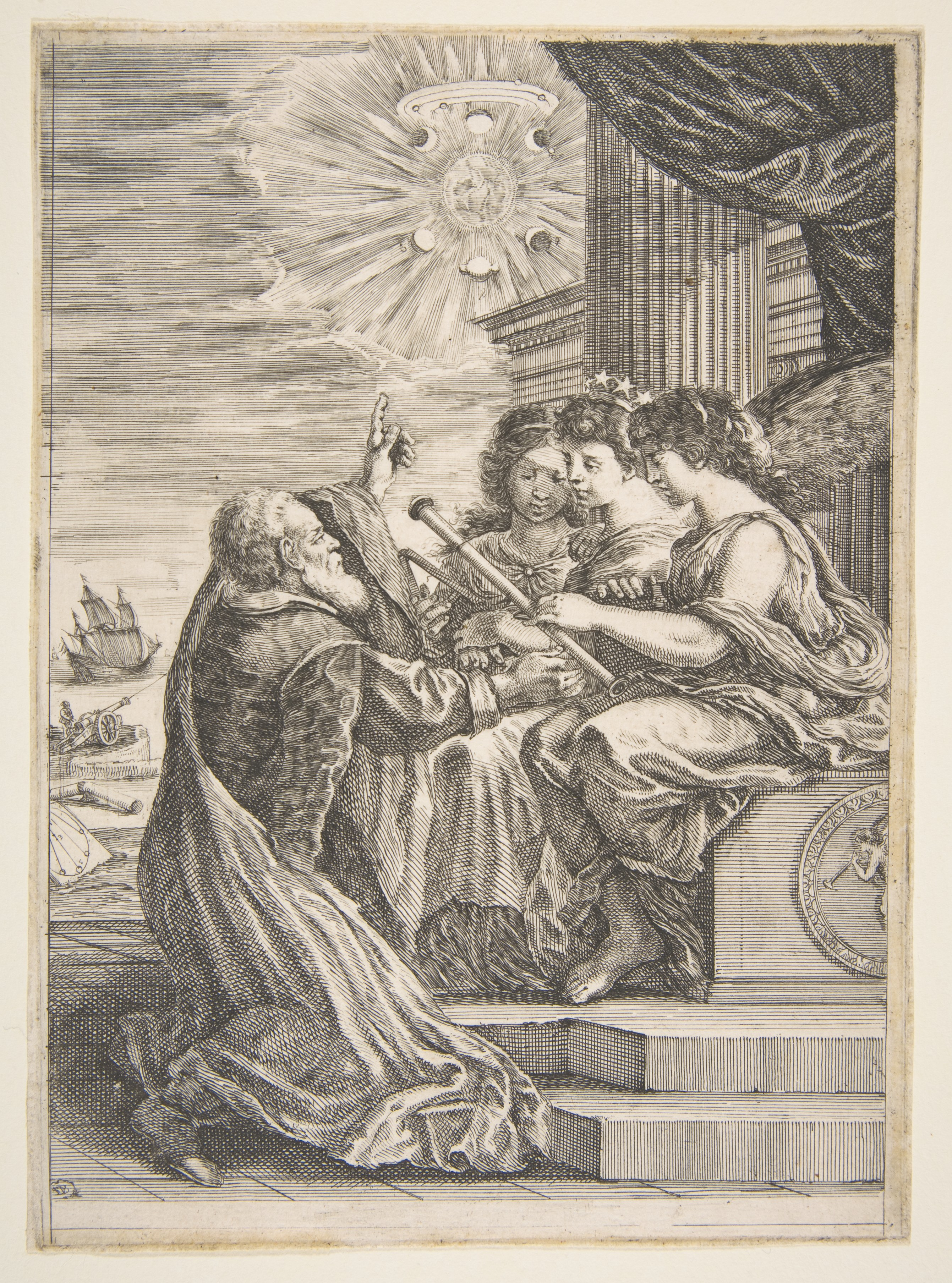 Print; Prints